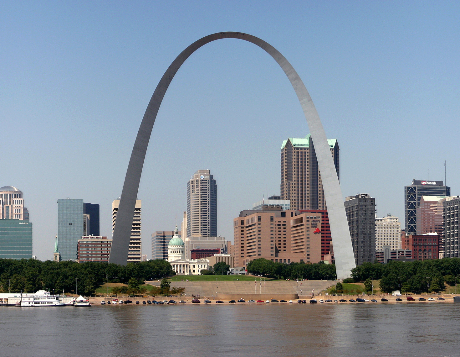 St. Louis, Missouri, United States